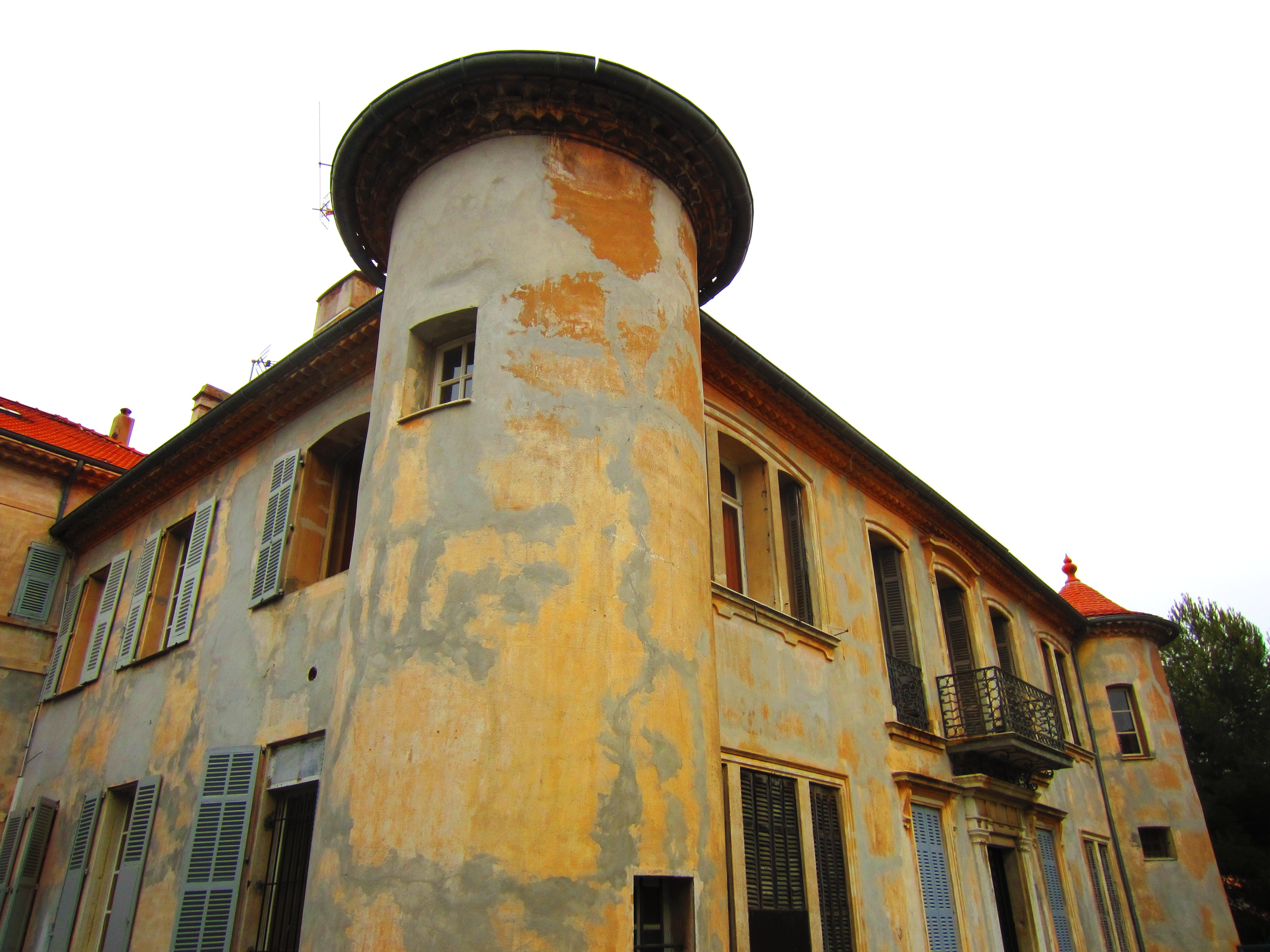 salt castle Antibes